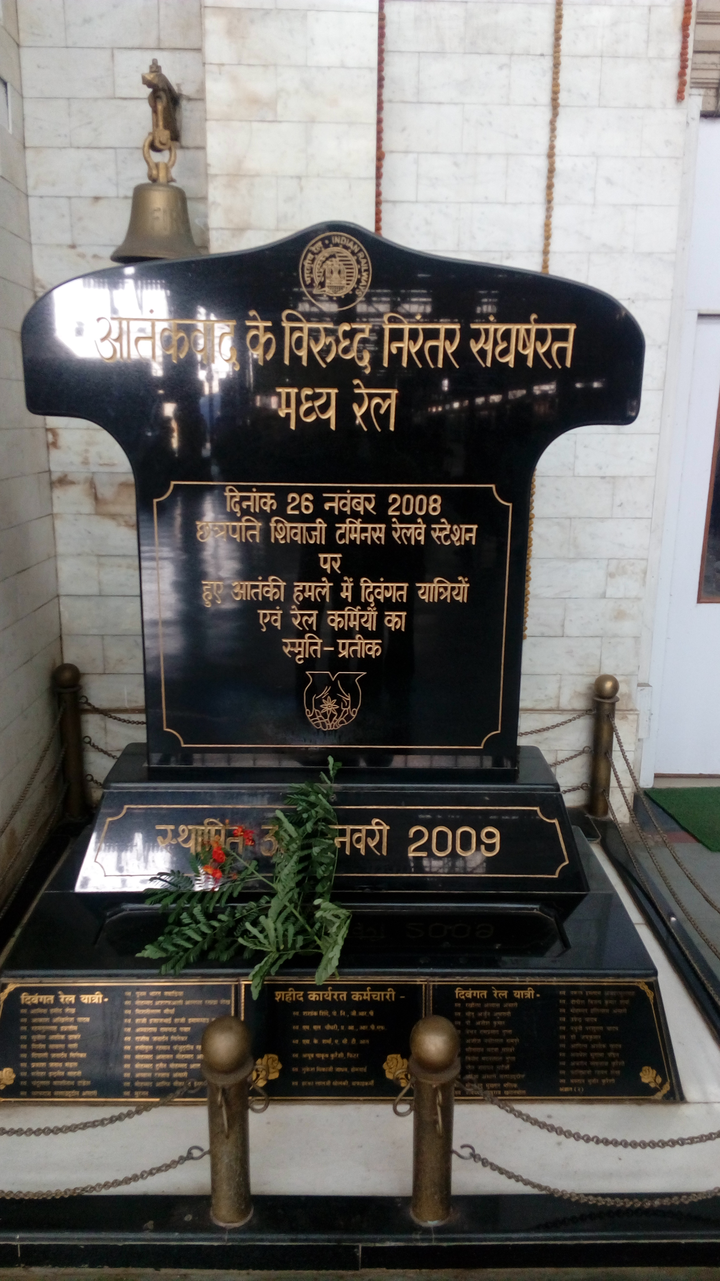 On 26 November 2008, 10 Pakistani armed terrorists executed one of the deadliest terror attacks in the world with some media calling it as India's 9/11. CST Railway Station was one of the several targets of the terrorists which witnessed killing of common public